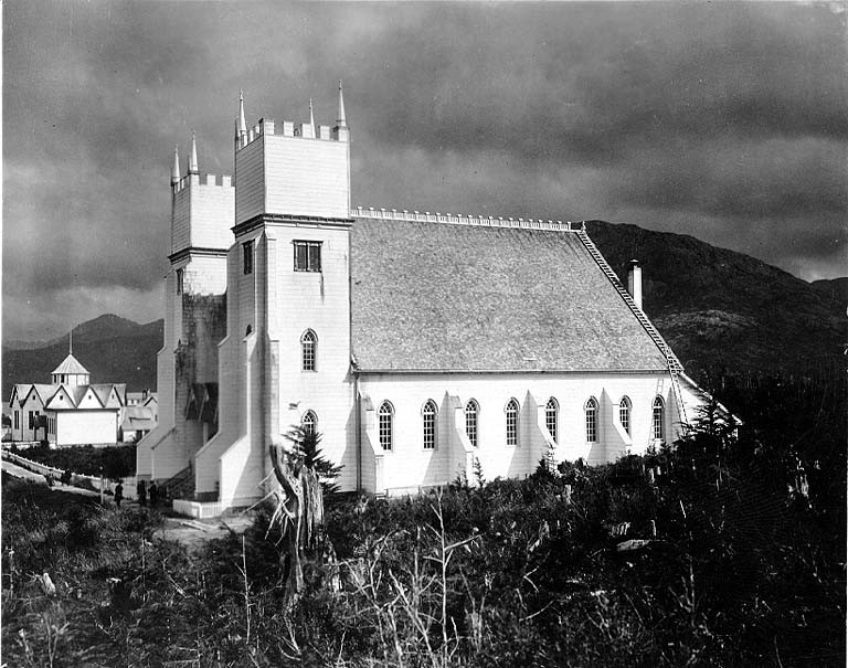 On verso of image: Native [illeg] church, Metlakahtla, Alaska, erected by Father Duncan's Indians Founded by the Scottish missionary Father William Duncan Subjects (LCTGM): Mission churches--Alaska--Metlakatla Subjects (LCSH): Tsimshian Indians--Missions; Metlakatla Christian Mission; Church buildings--Alaska--Metlakatla